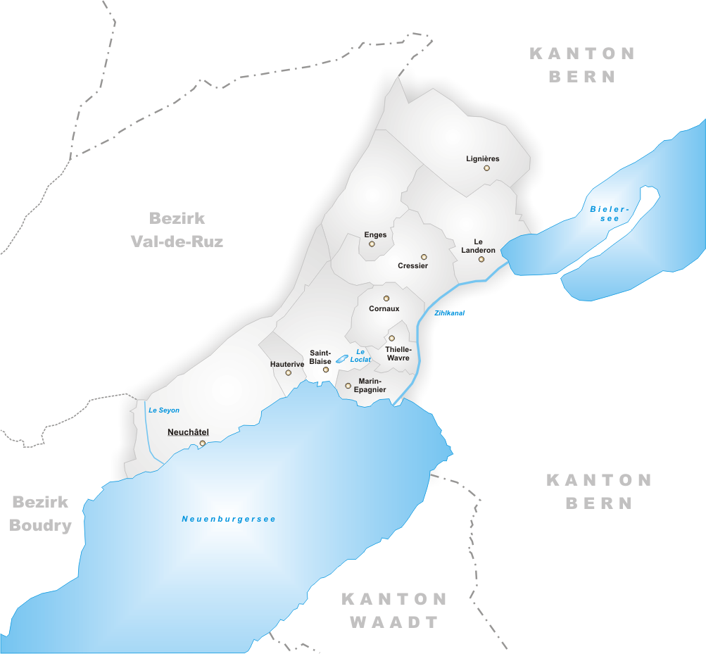 Municipalities of District Neuchâtel